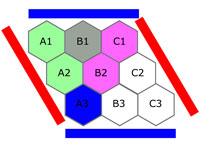 Illustration of a winning strategy for a hex game 3x3